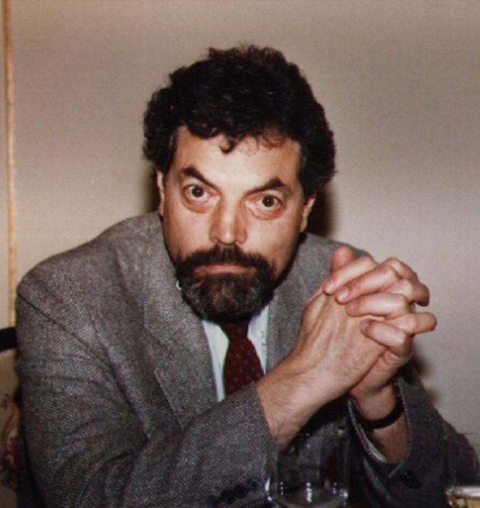 Photograph of Norman Marcon. Take in June 1986, scanned by myself and cropped.